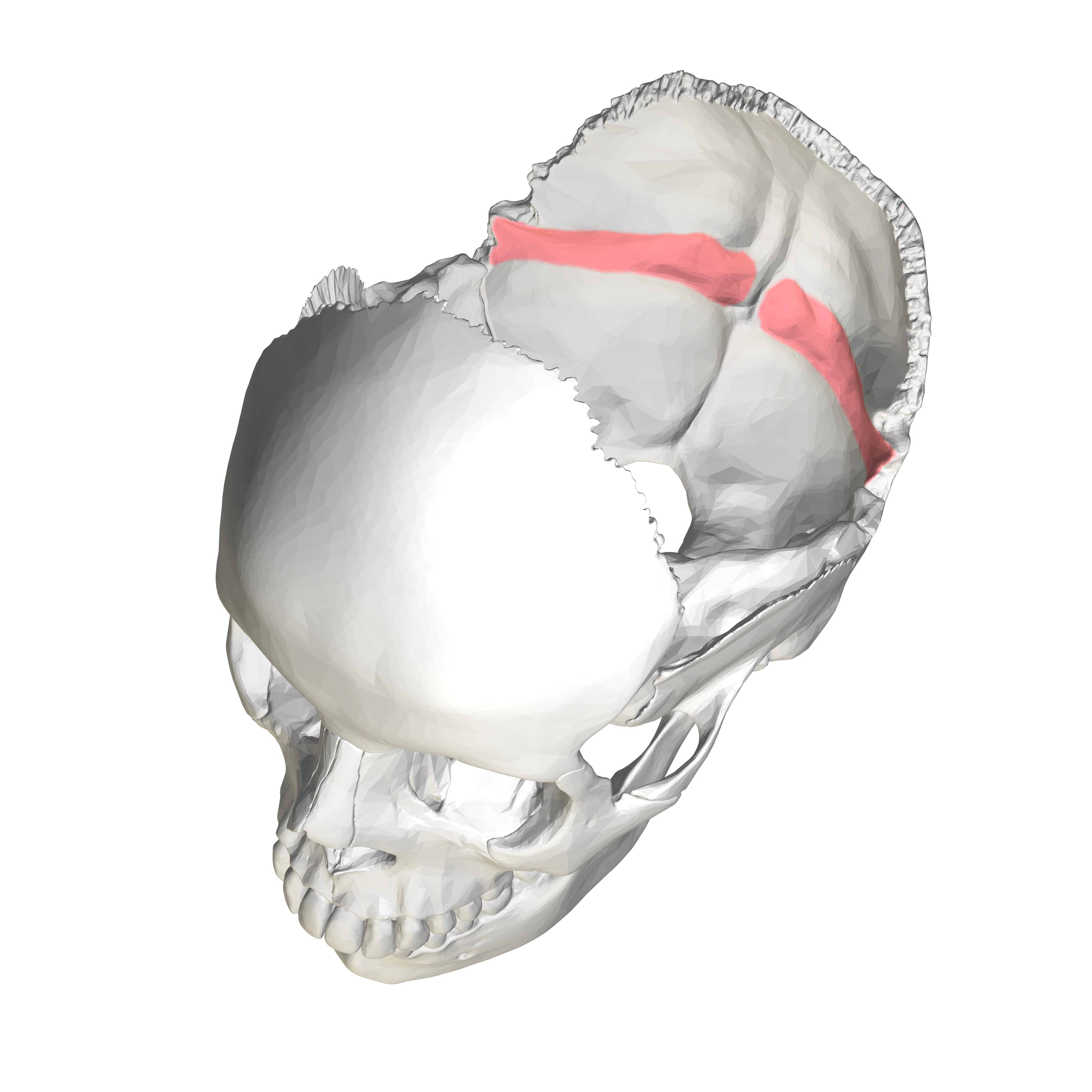 Groove for transverse sinus (shown in pink)